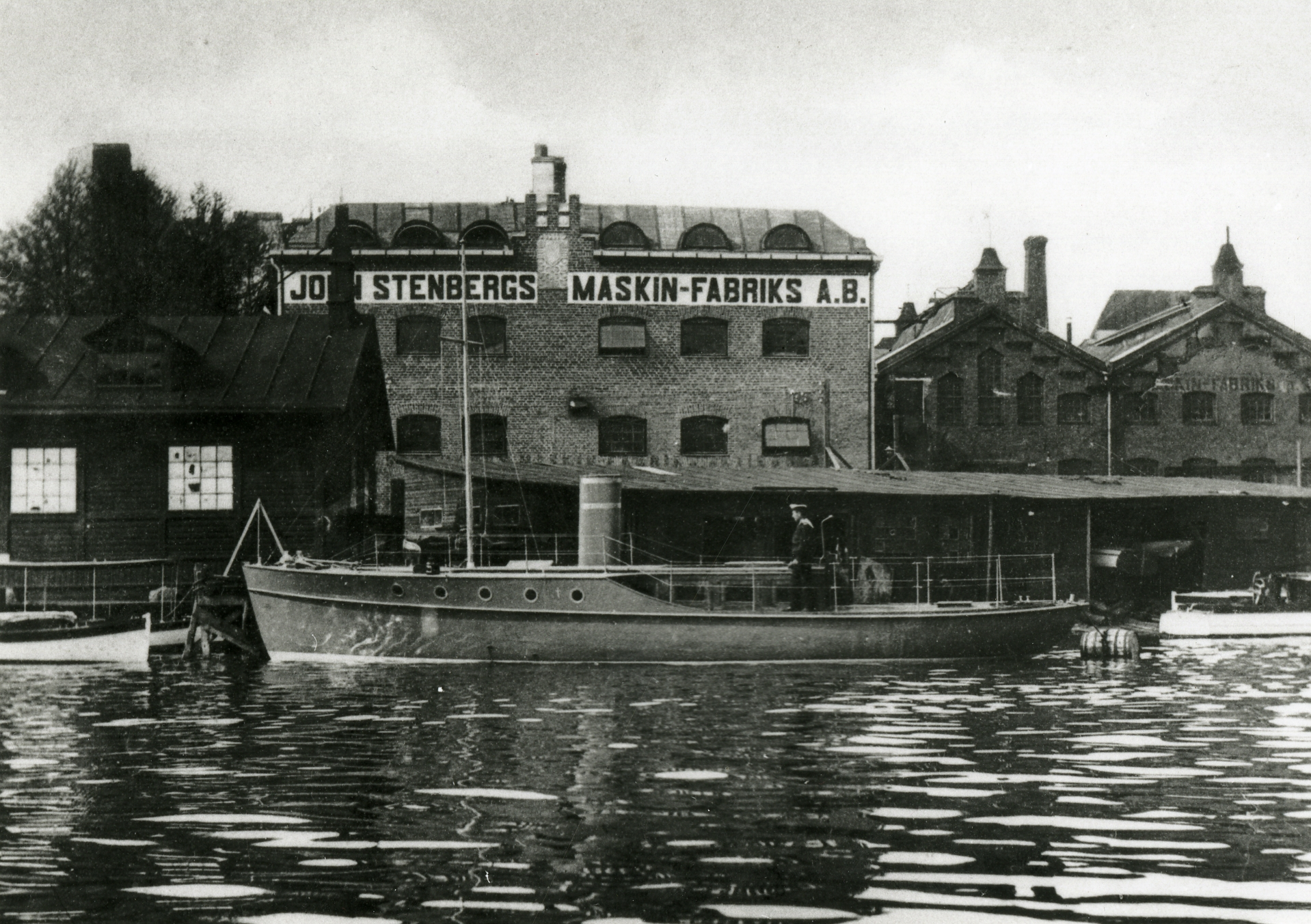 Johan Stenbergs maskinfabriks / konepaja / machine factory, early 1900s. Siltasaari, Helsinki. Company was founded in 1882 and changed name to "Oy John Stenberg Ab" in 1937.